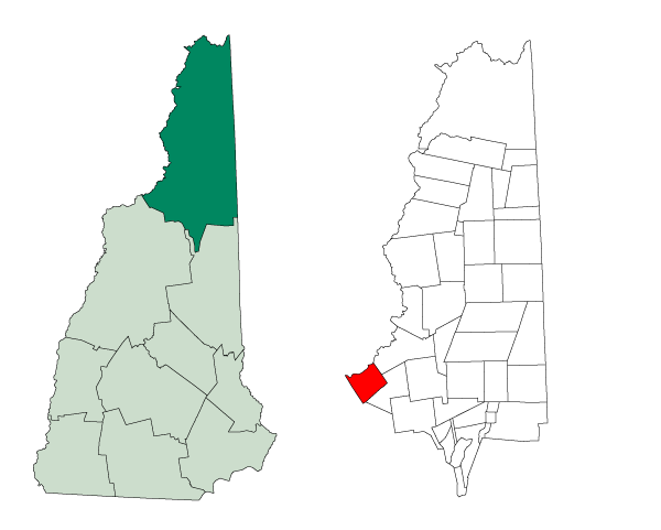 Map of a municipality in Coos County, New Hampshire